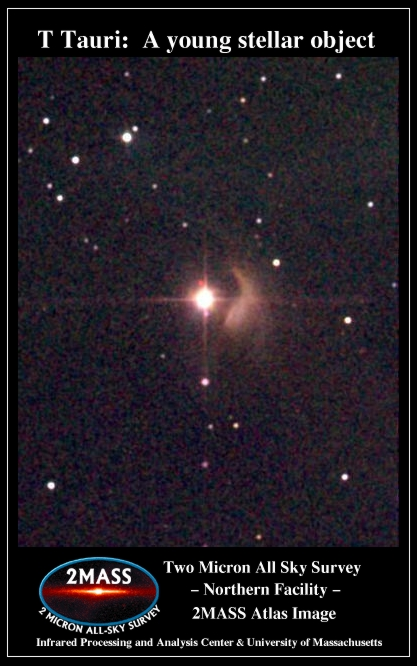 2MASS picture of T Tauri star